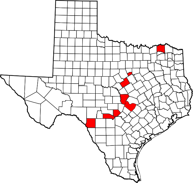 Some of the counties in Texas where Acrocanthosaurus tracks have been found.